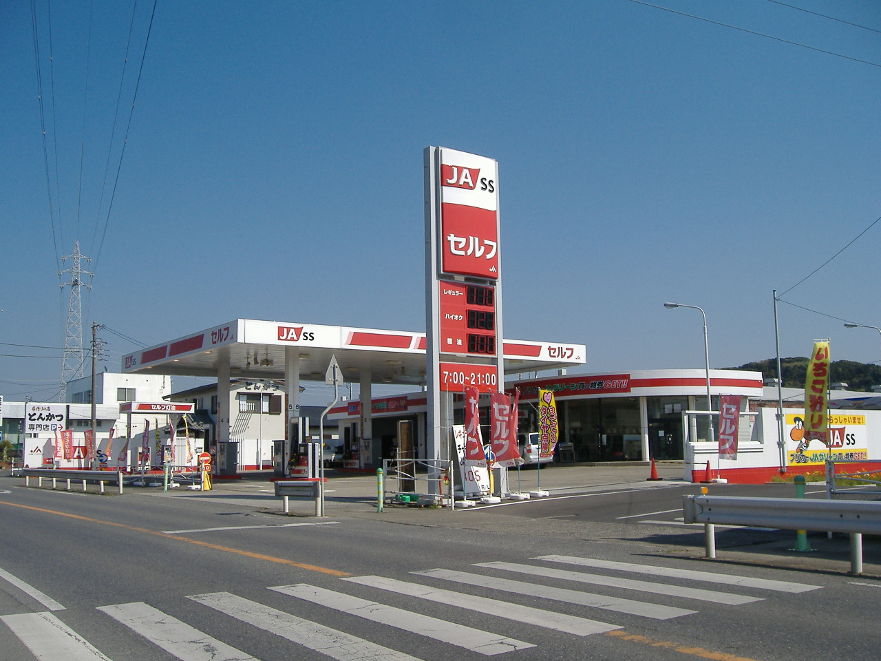 JA-SS,Praza R128(Tateyama, Chiba, Japan)